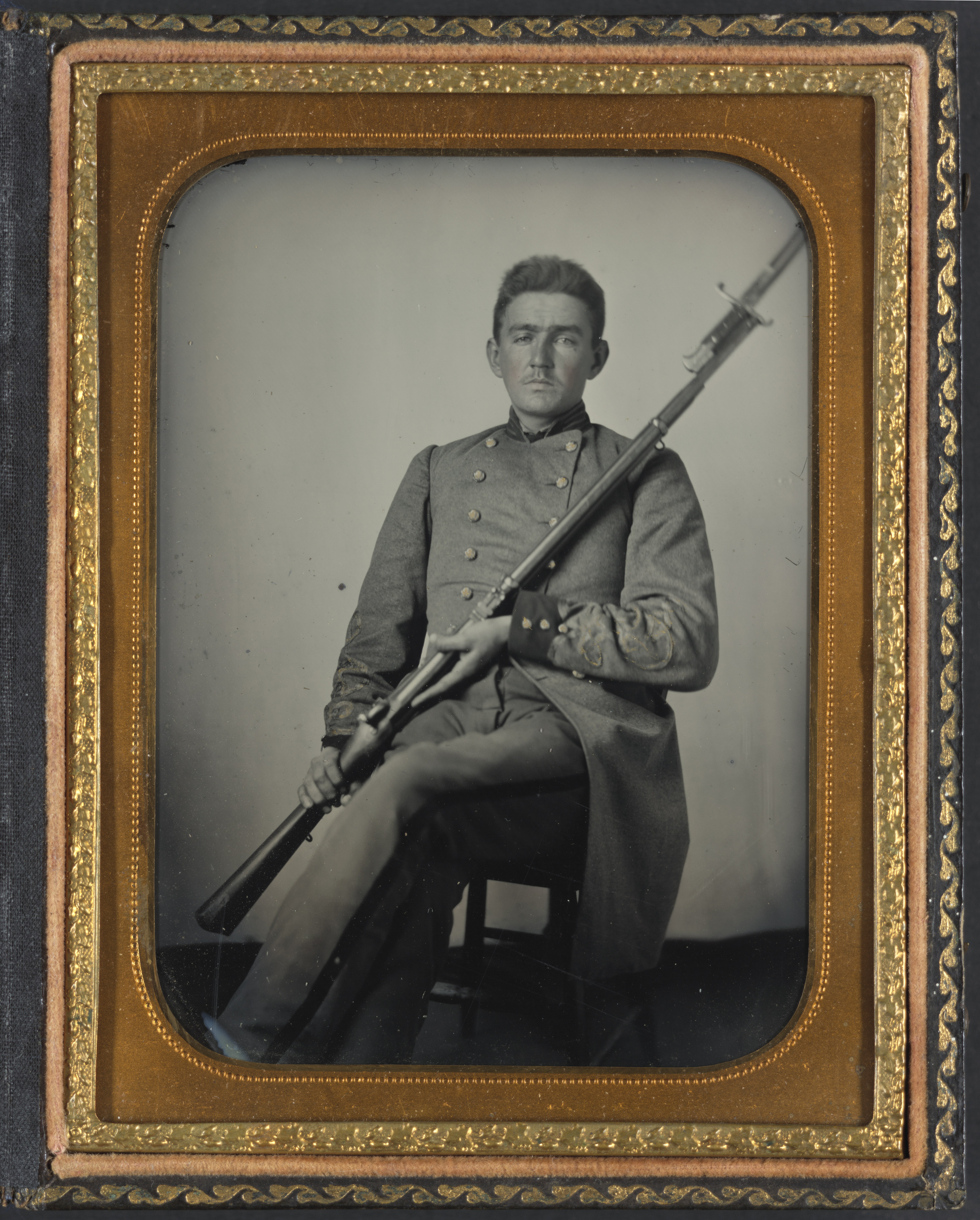 Title: Captain Daniel Turrentine of Company G, 12th Arkansas Infantry Regiment, in full officers' uniform with musket Abstract/medium: 1 photograph : quarter-plate ambrotype, hand-colored ; 11.8 x 9.4 cm (case)